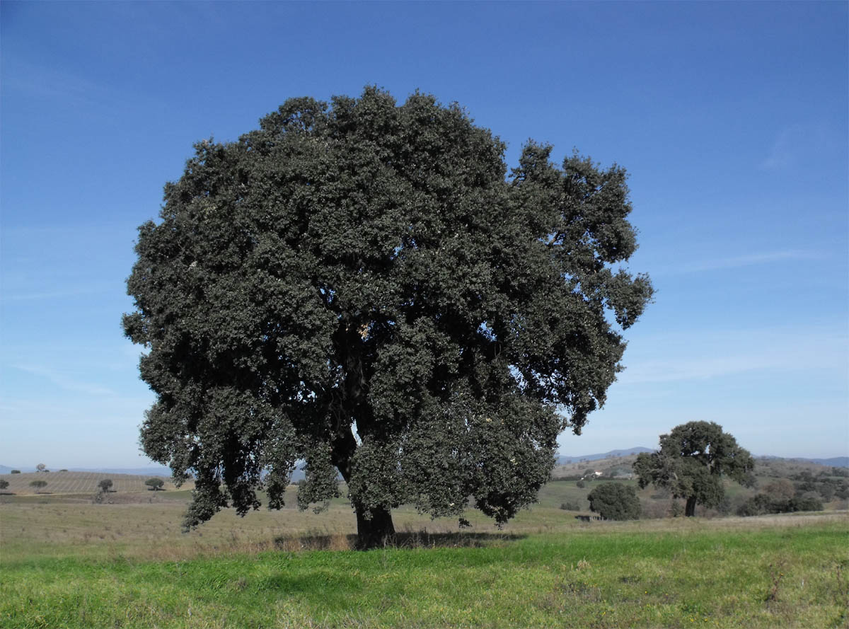 Quercus suber photographed near Magliano in Toscana, Tuscany, Italy. Photo by Massimiliano Marcelli.